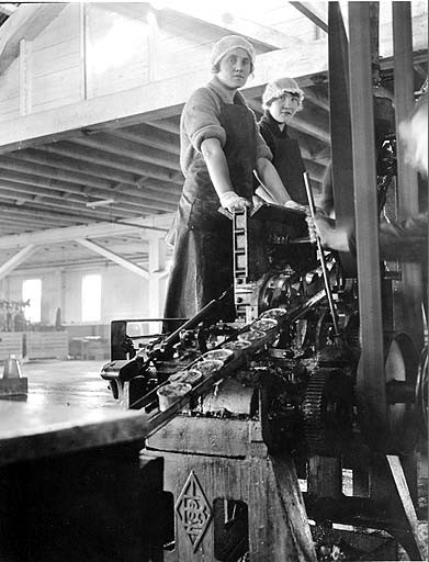 From John Cobb field notebook: Semiahmoo cannery, the filling machine, Wash. Aug. 1918 . On verso of image: Filling machine operated by girls... Subjects (LCTGM): Canneries--Washington (State)-- Semiahmoo Subjects (LCSH): Salmon canning industry--Washington (State)-- Semiahmoo; Women cannery workers--Washington (State)--Semiahmoo